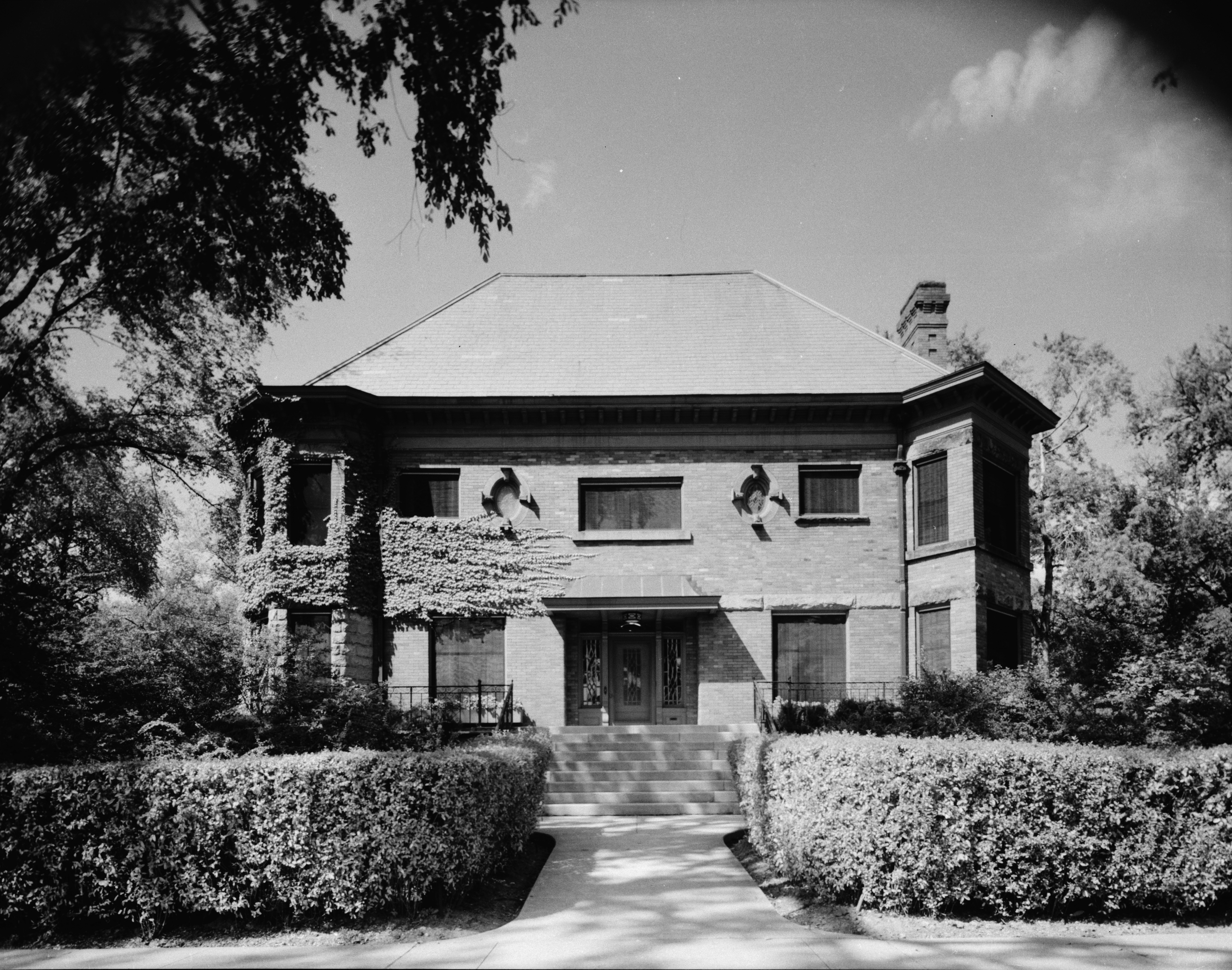 The exterior, east front of the Ransom E. Olds Mansion in Lansing, Michigan